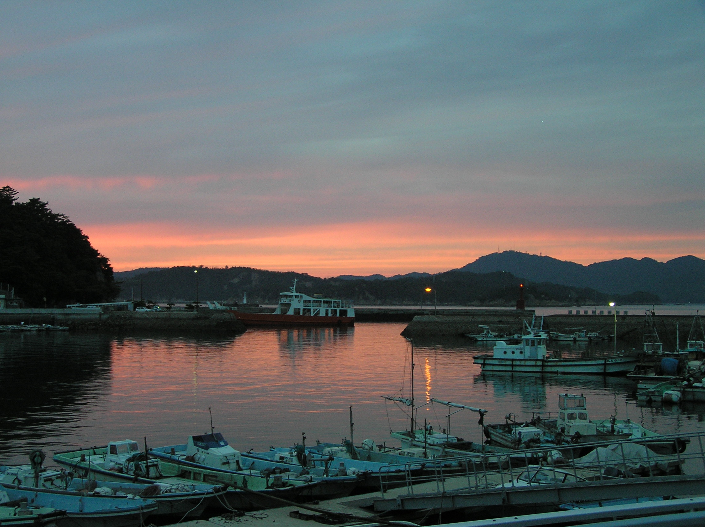 The port of Shiraishi Island, Japan.